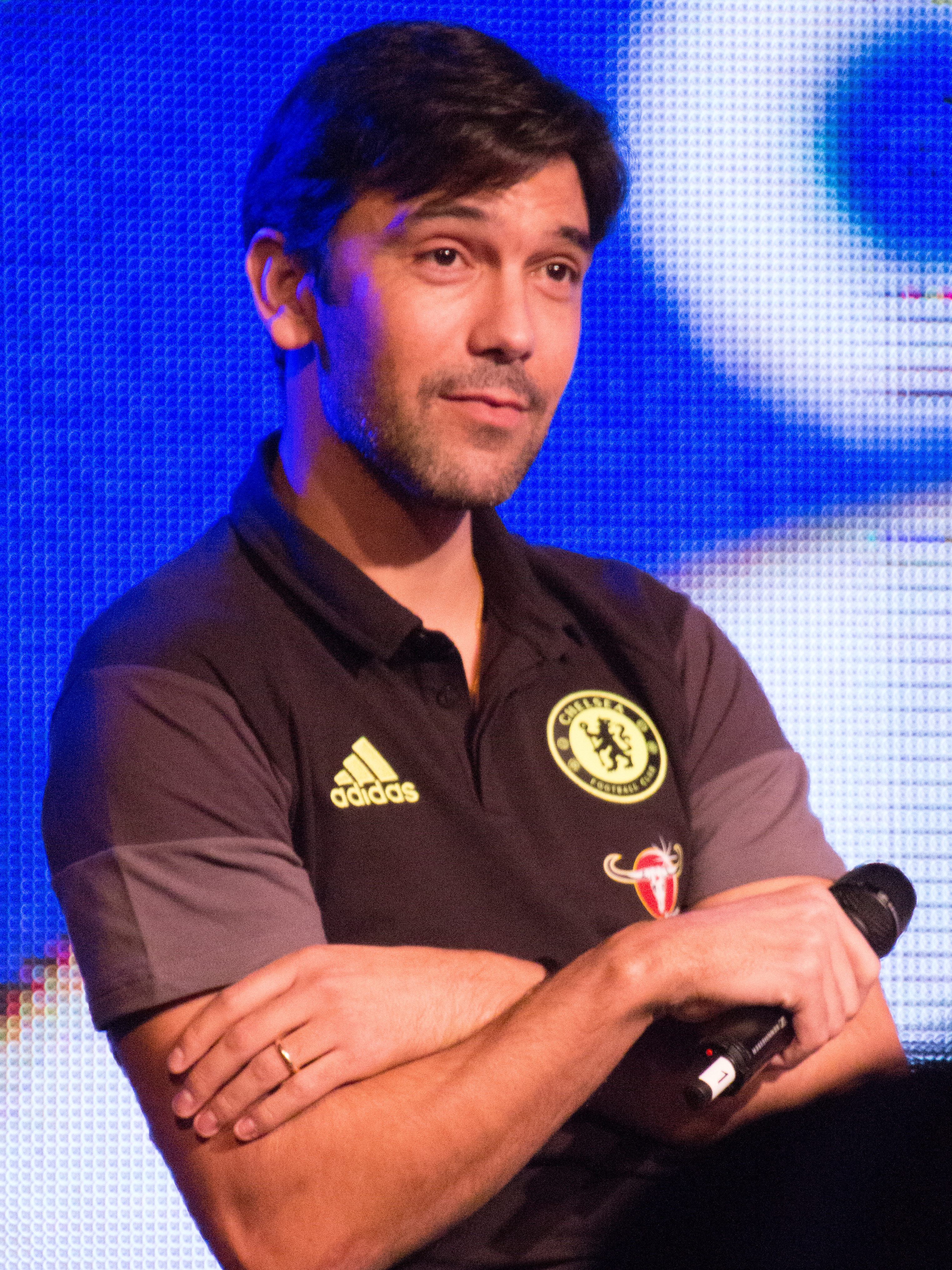 Paulo Ferreira during "An evening with" event in 2017